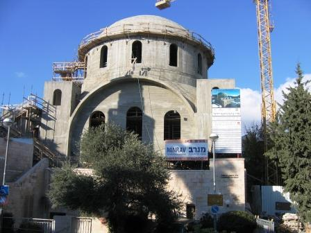 Construction of the Hurva Synagogue, Jerusalem